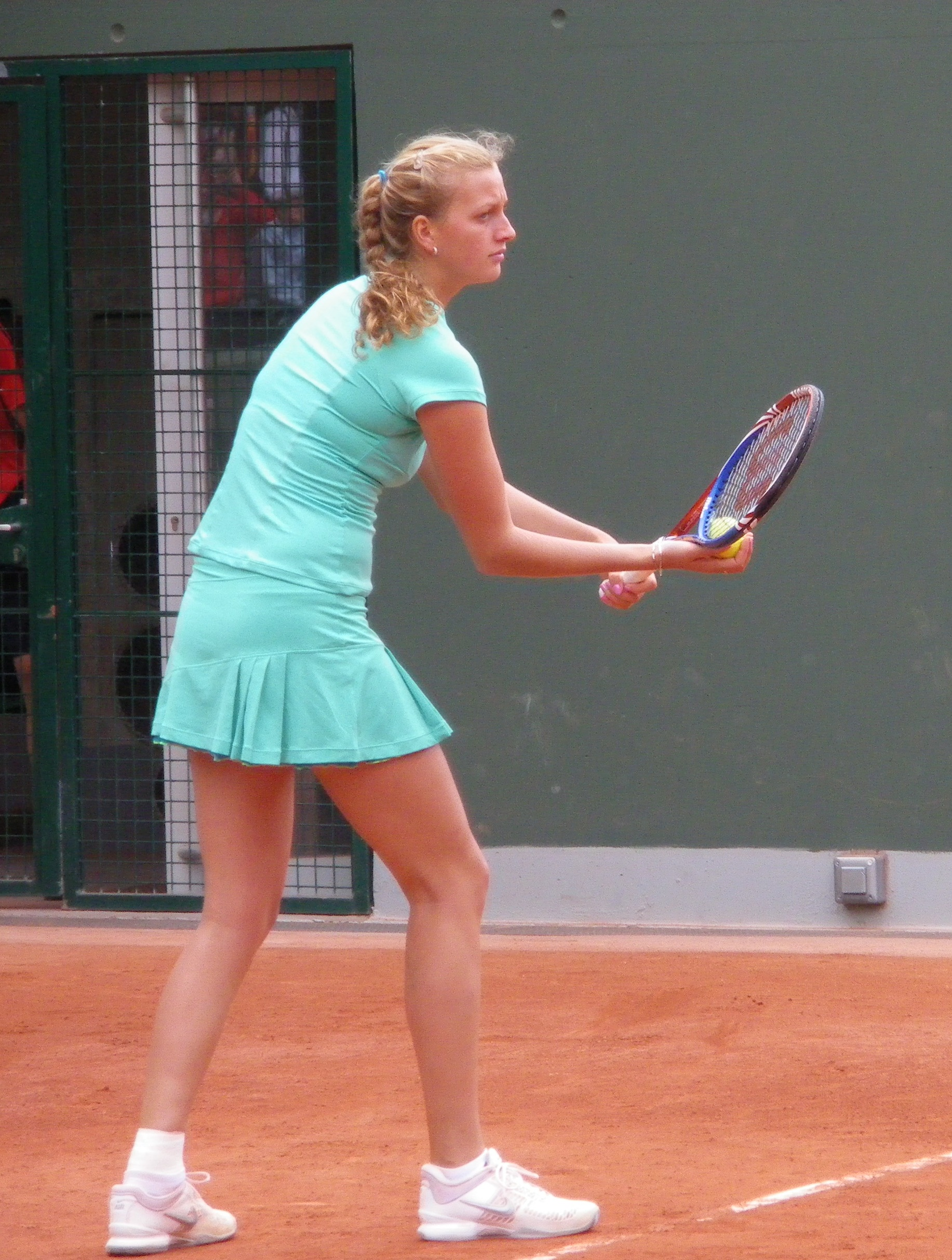 Petra Kvitová during a ladies doubles match at the French Open tennis championships (Roland Garros) 2010.